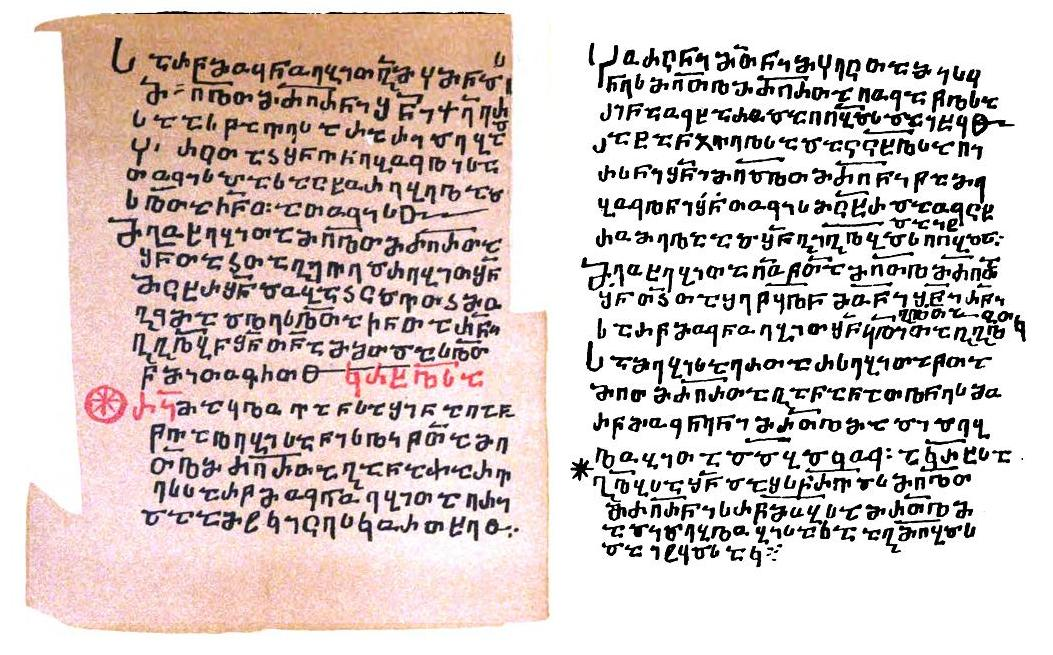 Photographs of the Georgian manuscripts of the Menaion from the Holy Land